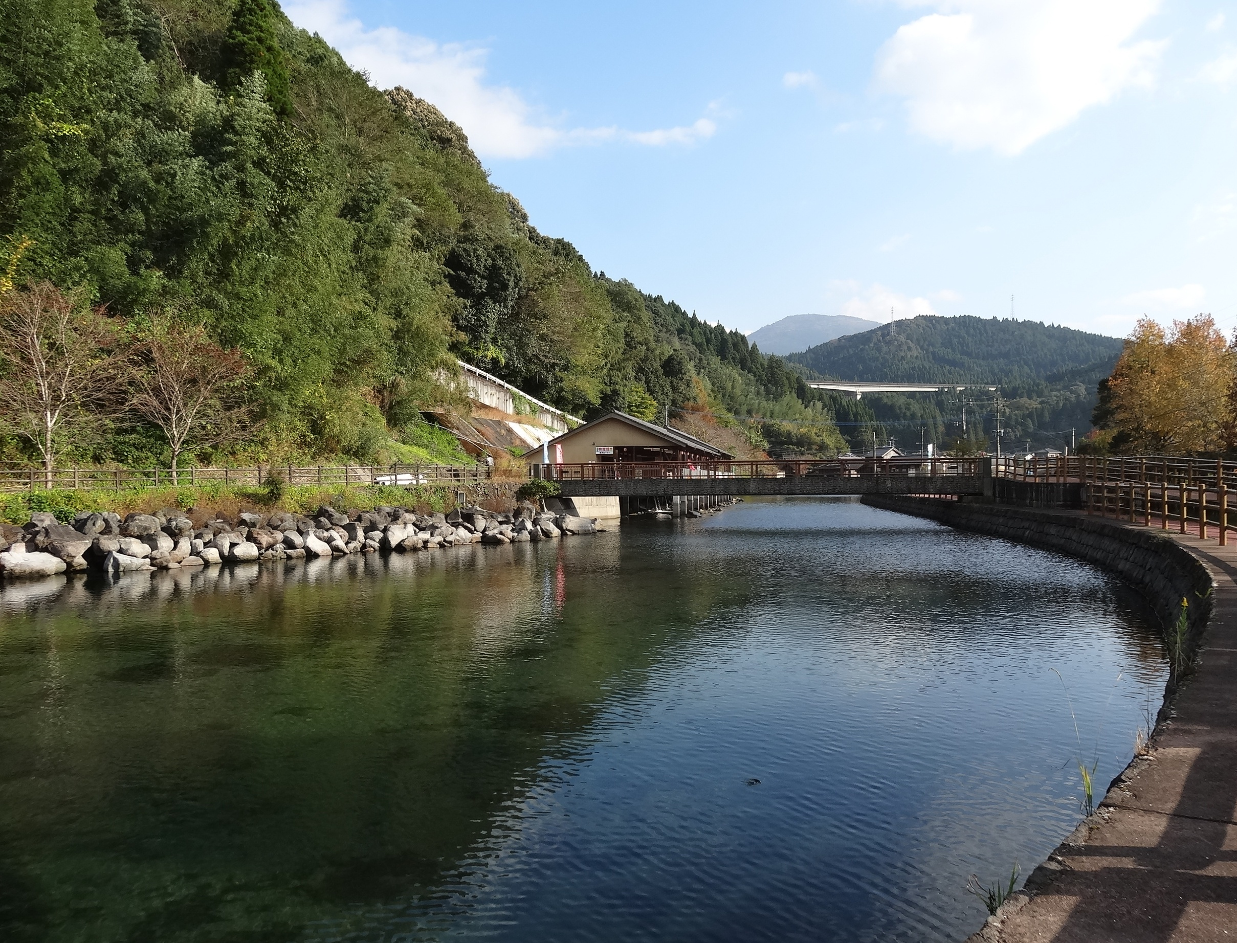 Lake Takenaka (Yusui Town, Kagoshima Prefecture, Japan)